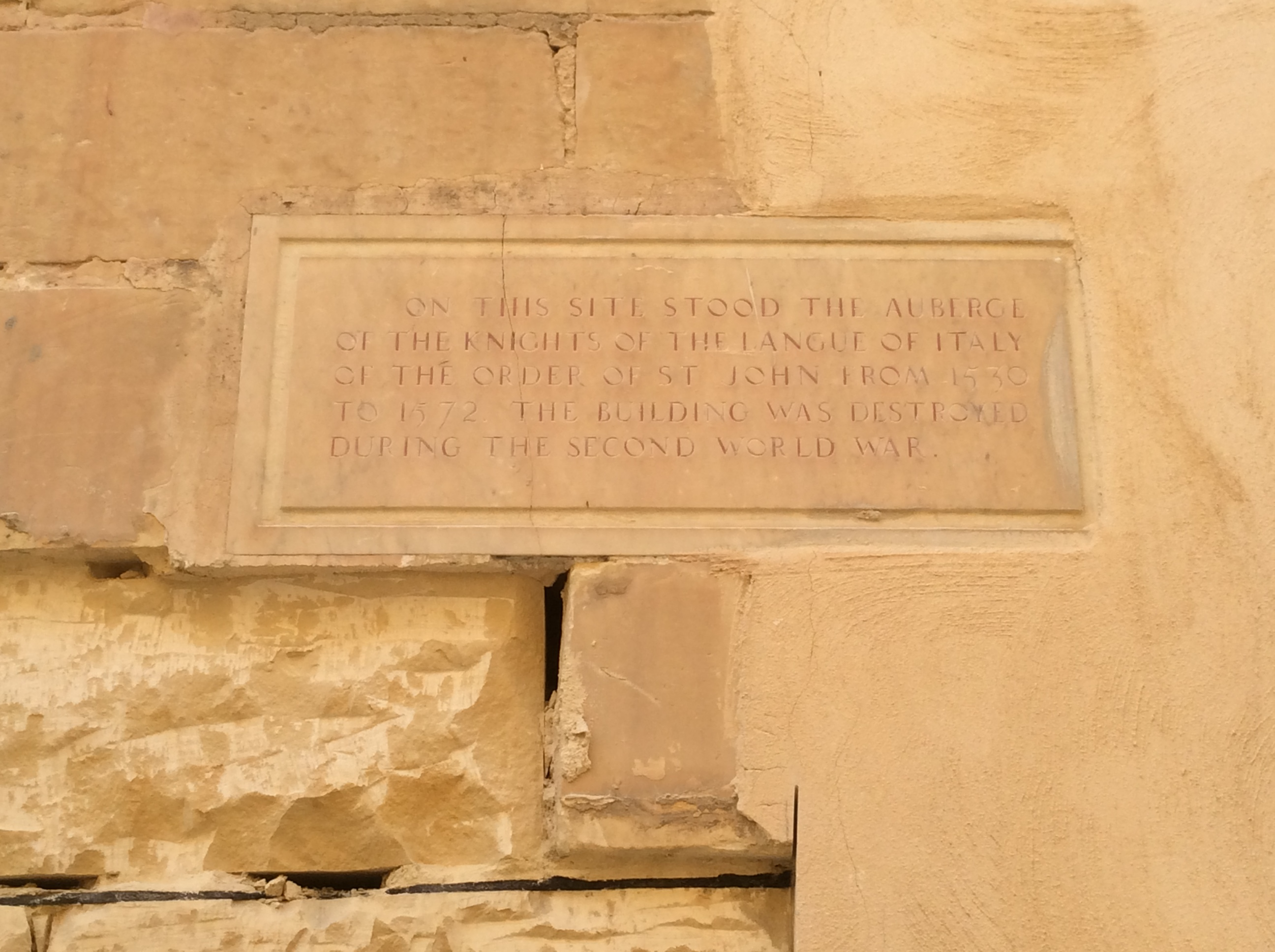 Auberge d'Italie This media is about Maltese cultural property with inventory number 01164.